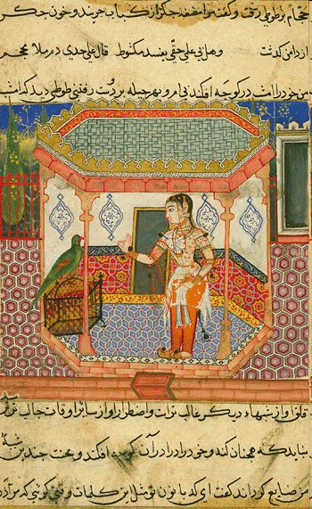 'Tutinama', Tales of a Parrot Originally a fourteenth-century Persian tale, the Tutinama (Tales of a Parrot) consists of fifty-two stories that a parrot tells his mistress, Khojasta, to detain her from leaving home to meet with a lover during her husband's absence. The Persian text on this page identifies it as the forty-fifth story; the parrot tells Khojasta about a cunning snake, thereby advising his mistress to avoid deception. This page comes from an illustrated copy of the text attributed to the patronage of the Mughal emperor Akbar.